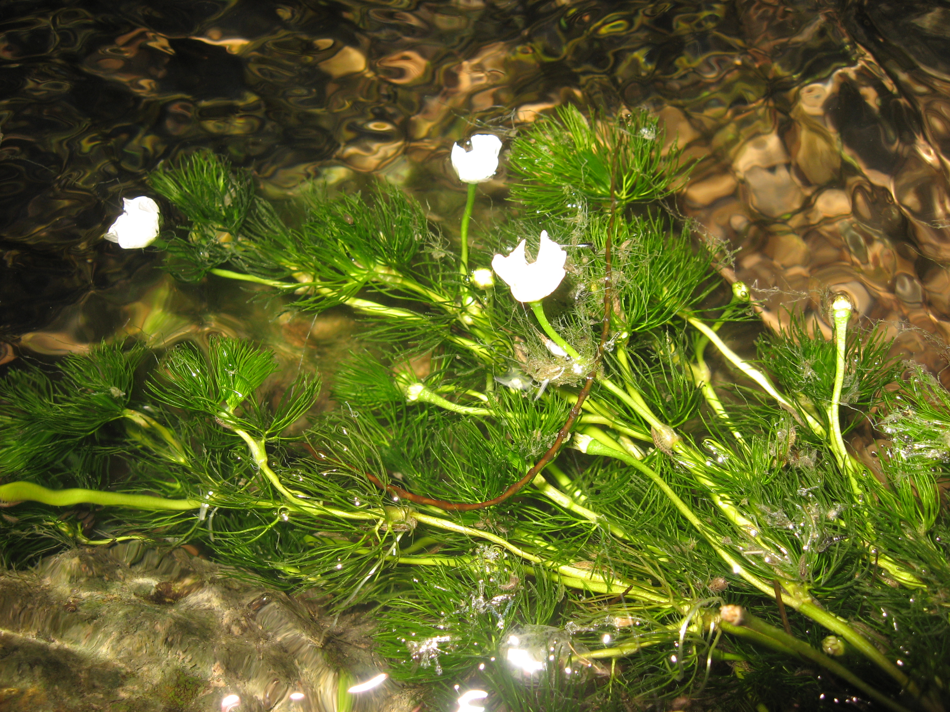 Ranunculus longirostris, in Townsend Creek, Bourbon County, Kentucky.